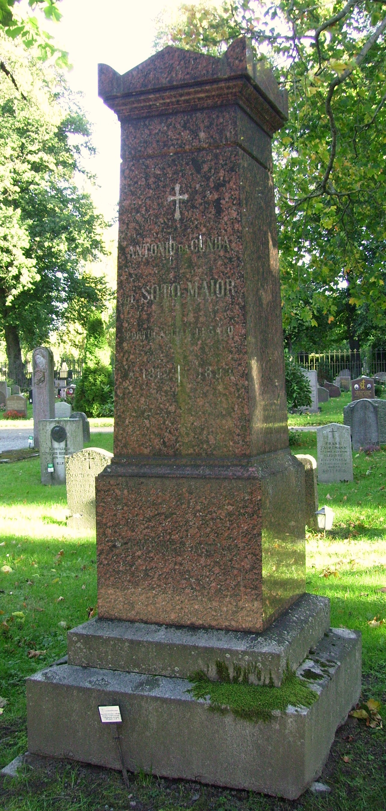 Picture of Soto Maior's grave at Romersk-katolska norra begravningsplatsen in Solna